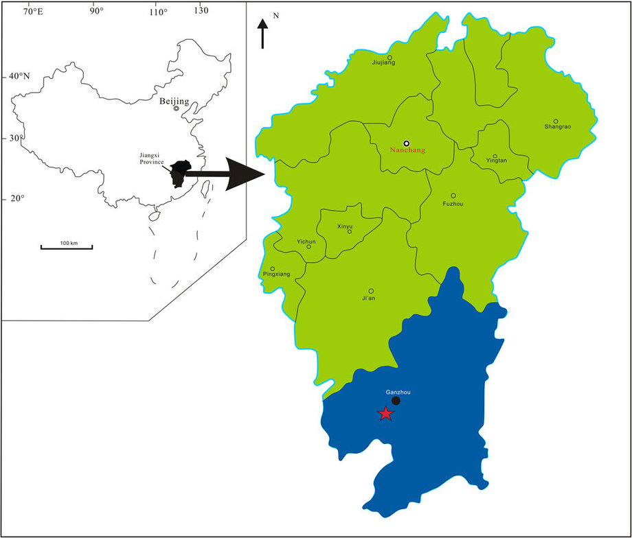 Map of the fossil locality where the holootype specimen of Tongtianlong limosus was found near Ganzhou, Jiangxi Province, southern China. The solid five-pointed star represents the fossil site. Modified from Lü et al.29.